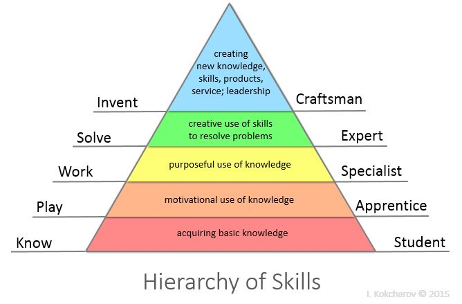 Similar to Maslow's Hierarchy of Needs (the Theory of Human Motivation), the Pyramid / Hierarchy of Skills is suggested. It includes 5 levels: Know, Play, Work, Solve, and Invent. Another classification includes roles: Student, Apprentice, Specialist, Expert, and Craftsman. "The craftsman represents the special human condition of being engaged." - Richard Sennett The work is inspired by two books: - Maslow A.H. A Theory of Human Motivation - Sennett R. The Craftsman. 2008.